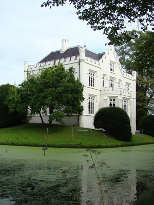 Castle Rossum